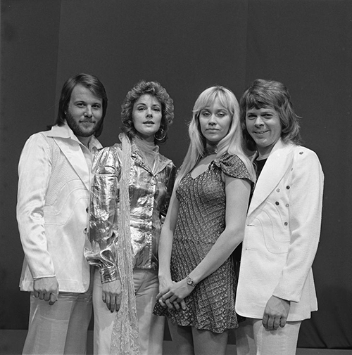 ABBA in AVRO's TopPop (Dutch television show) in 1974